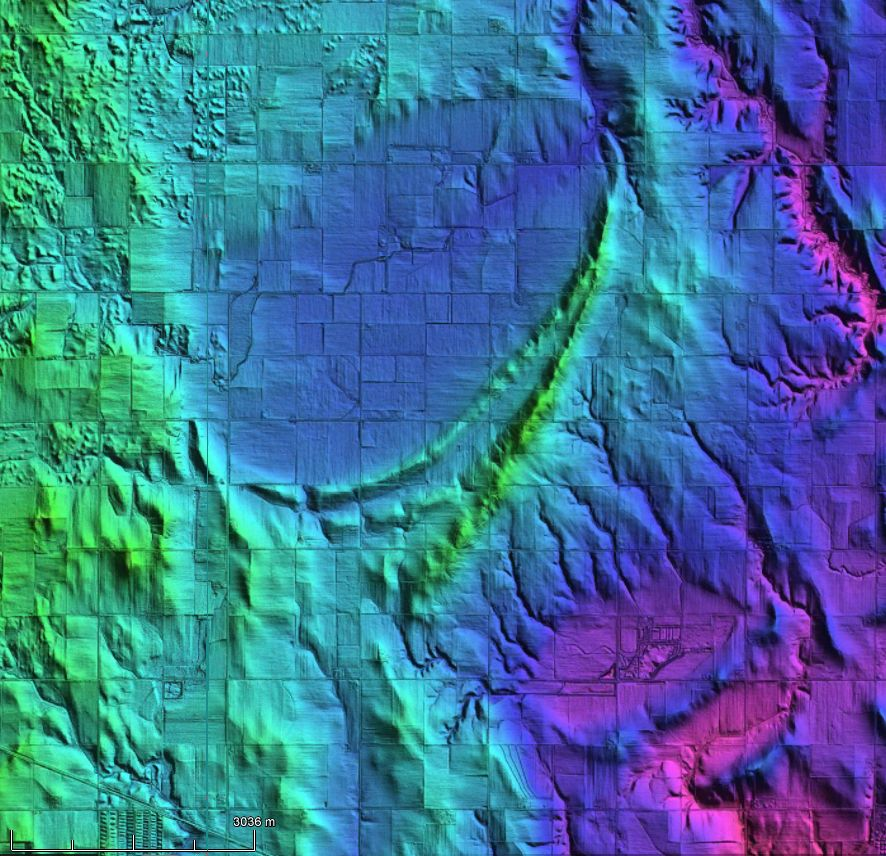 LiDAR image of Nebraska Rainwater Basins at latitude 40.7000 and Longitude -98.4722. The large elliptical basin has a major axis of 6,110 meters and a minor axis of 3,400 meters, which corresponds to a width-to-length ratio of 0.56. The basin is located 600 meters above sea level.